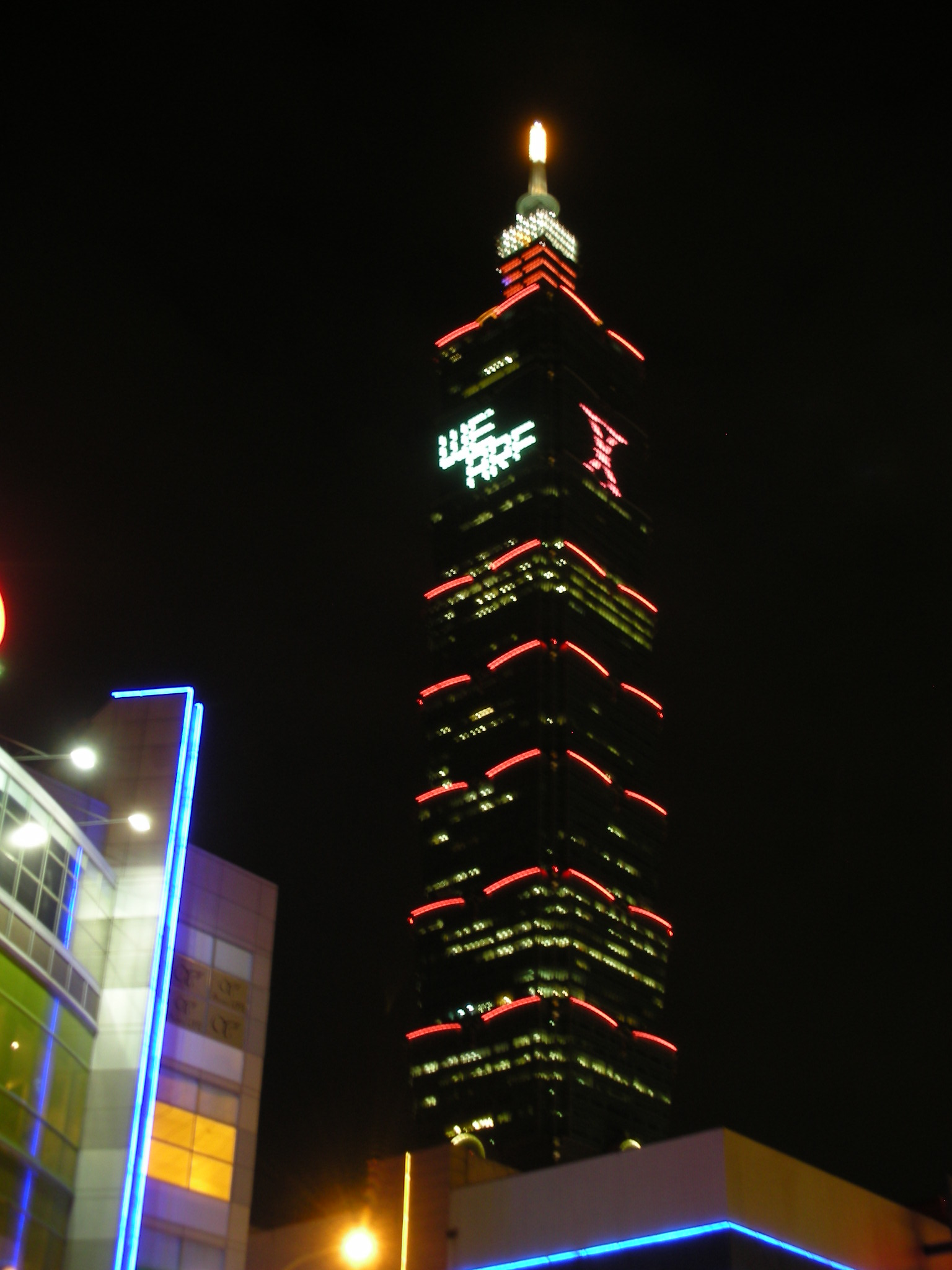 Taipei 101 special illumination celebrating the first X Japan live concert held in Taiwan on 16 September 2008.